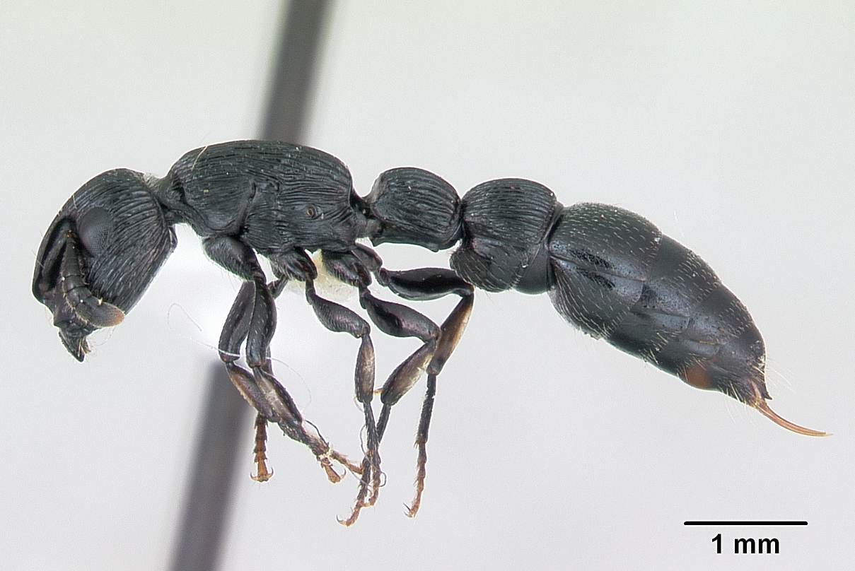 Profile view of ant Cylindromyrmex whymperi specimen casent0173212.